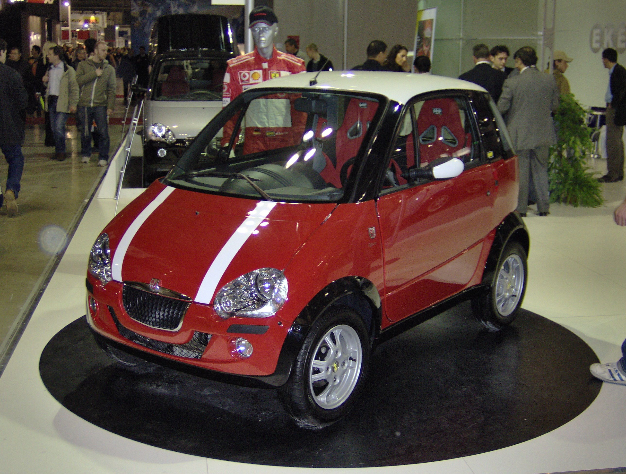 EKE Sport, built by Grecav in Mantua, Italy.